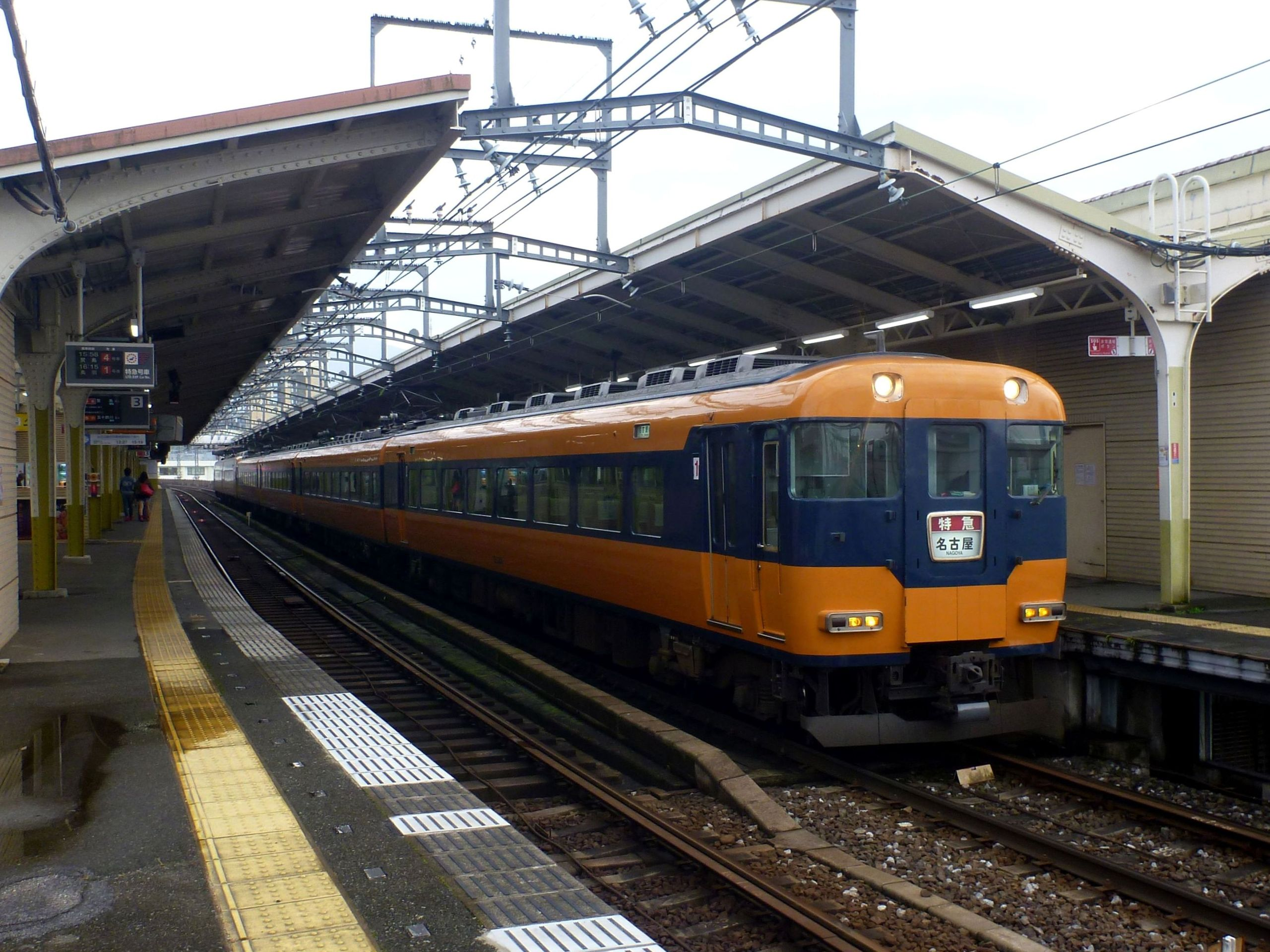 Nagoya-bound limited express at Kintetsu Uji-Yamada Station